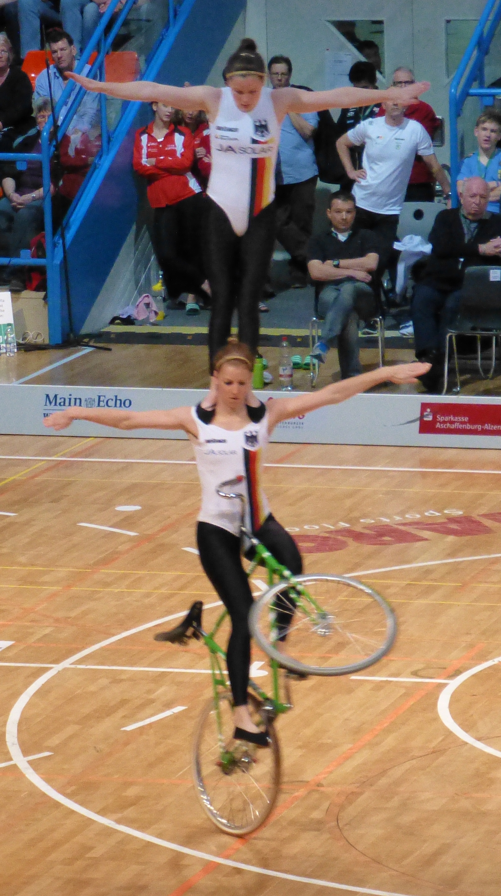 artistic-cycling, world-champions, Katrin Schultheis, Sandra Sprinkmeier